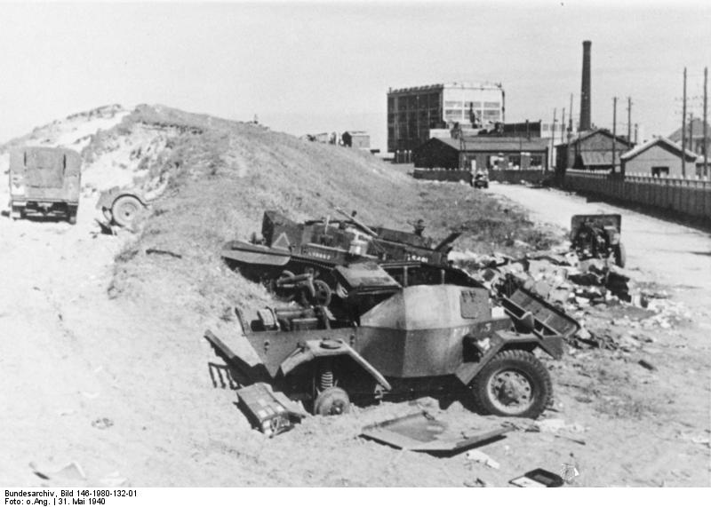 Englischer Panzerwagen in Calais. 31.5.1940, 16.45 Uhr Information added by Wikimedia users.Abandoned Daimler Scout Car (Dingo) and Scout Carrier in Calais